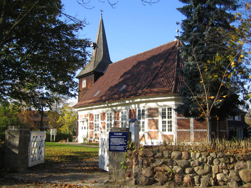 St. Salvatoris Church in Geesthacht